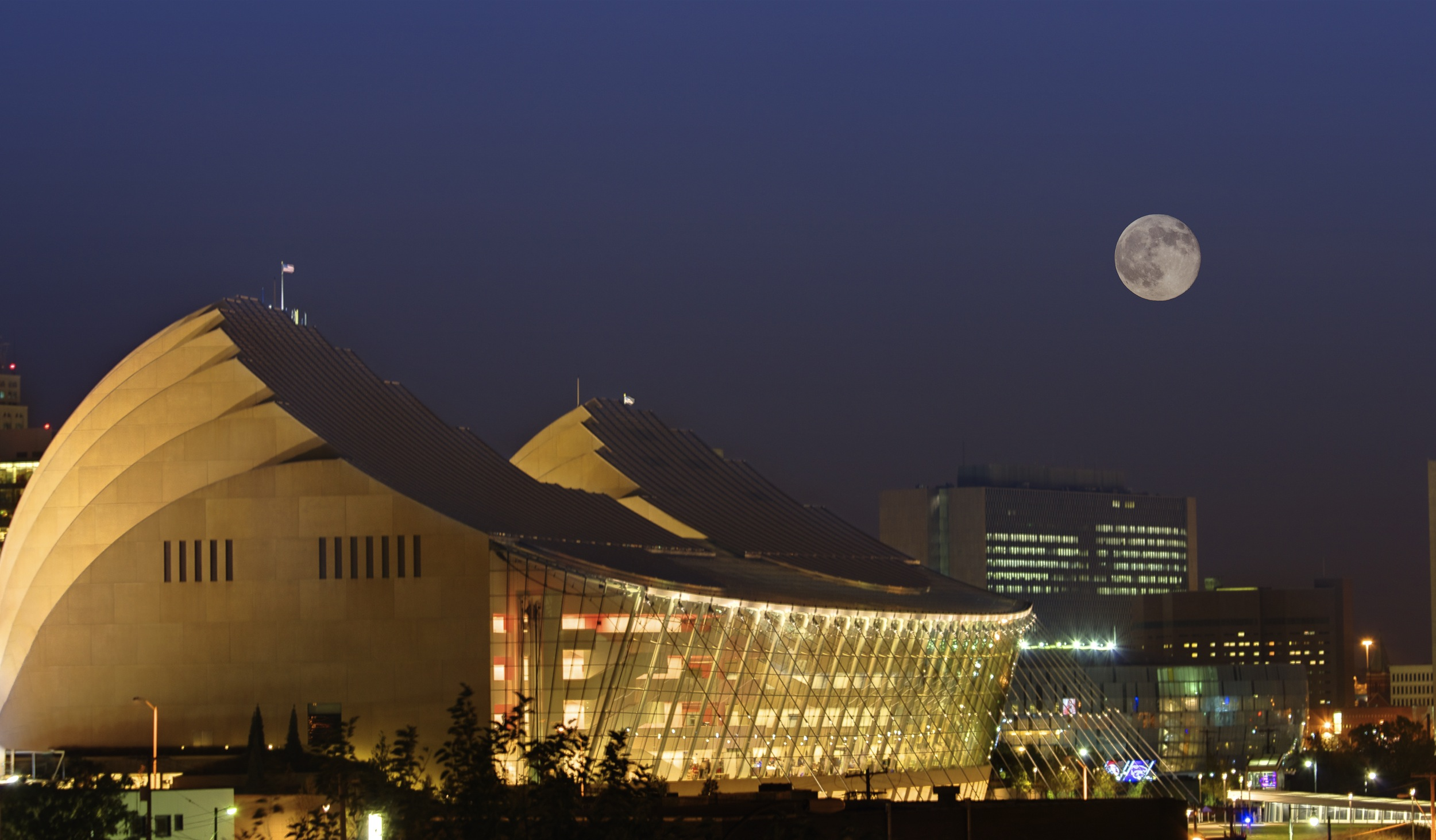 Photographer Taylor Sloan